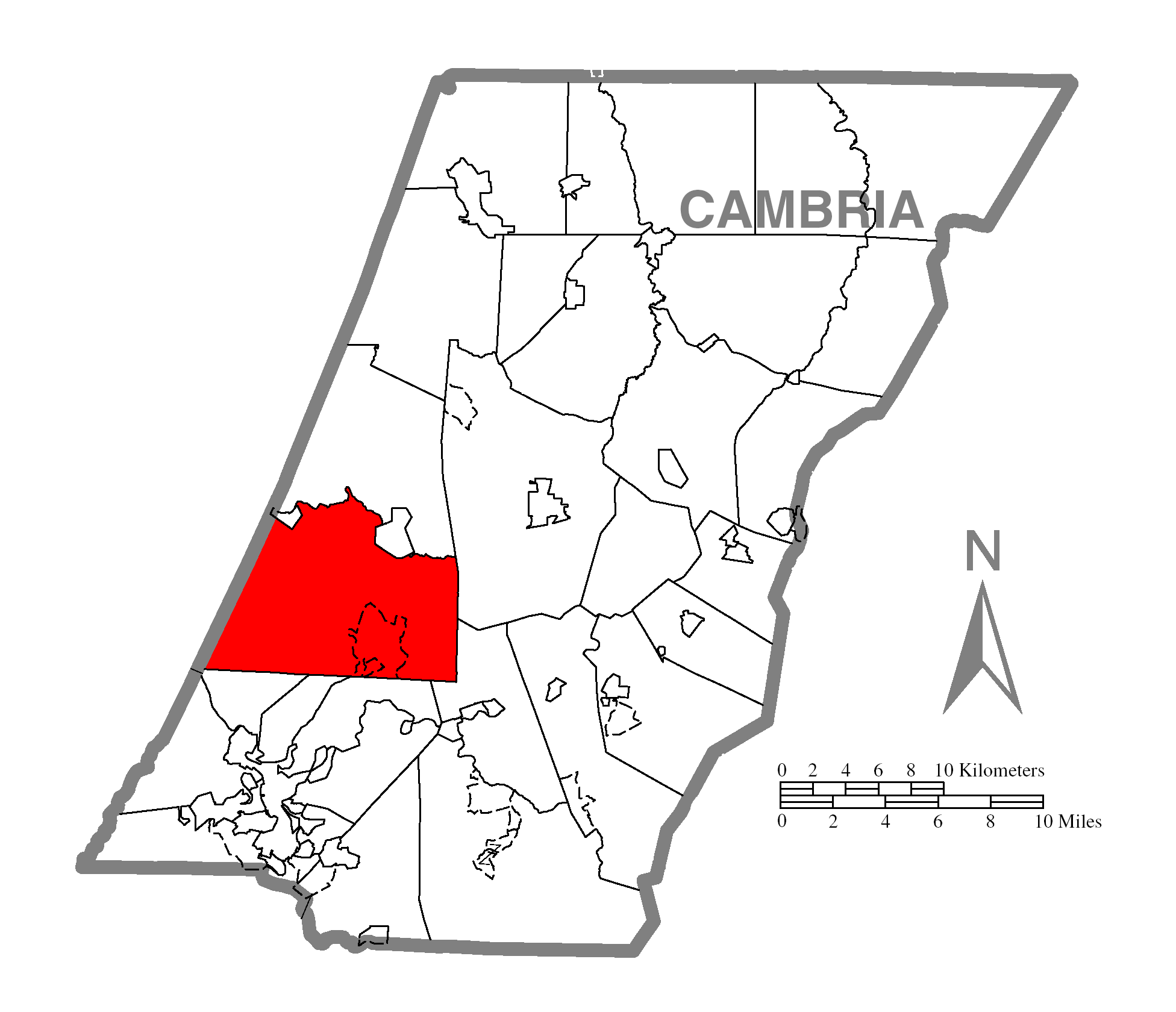 A map of Cambria County showing Jackson Township, Pennsylvania (alternate) highlighted on the map.